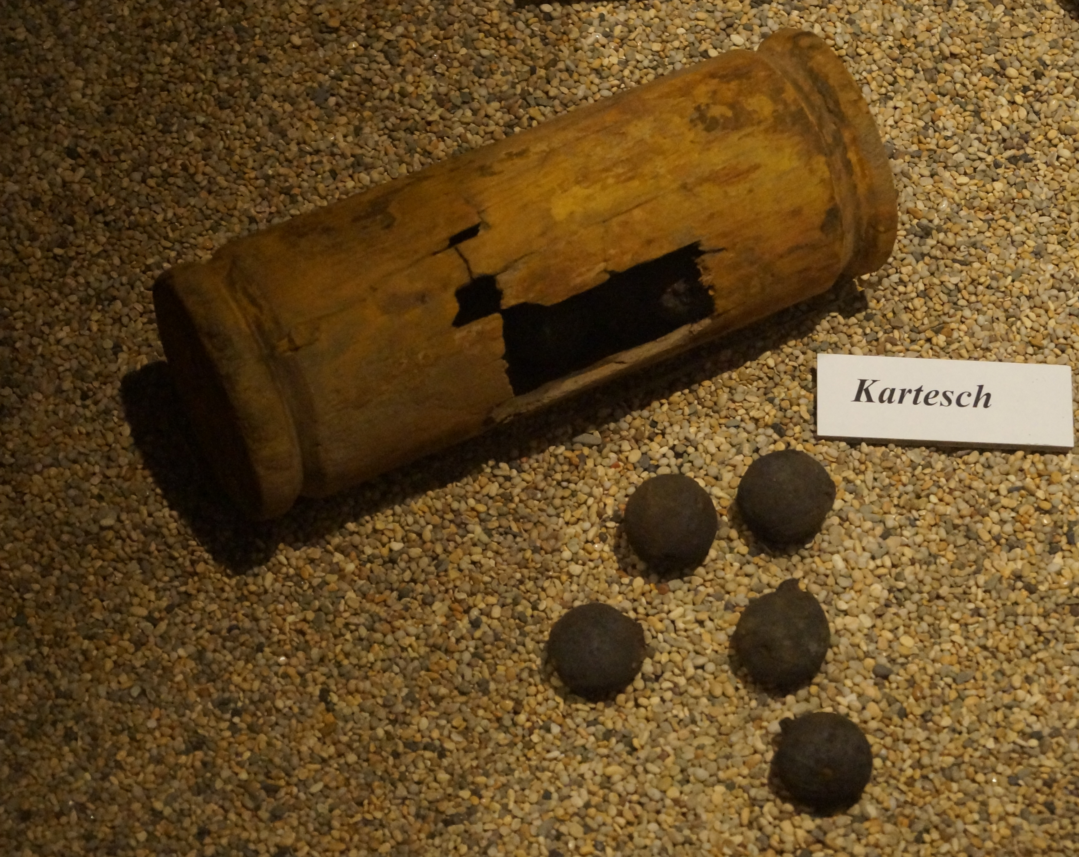 A canister shot salvaged from Kronan (ship), exhibited at Kalmar läns Museum.